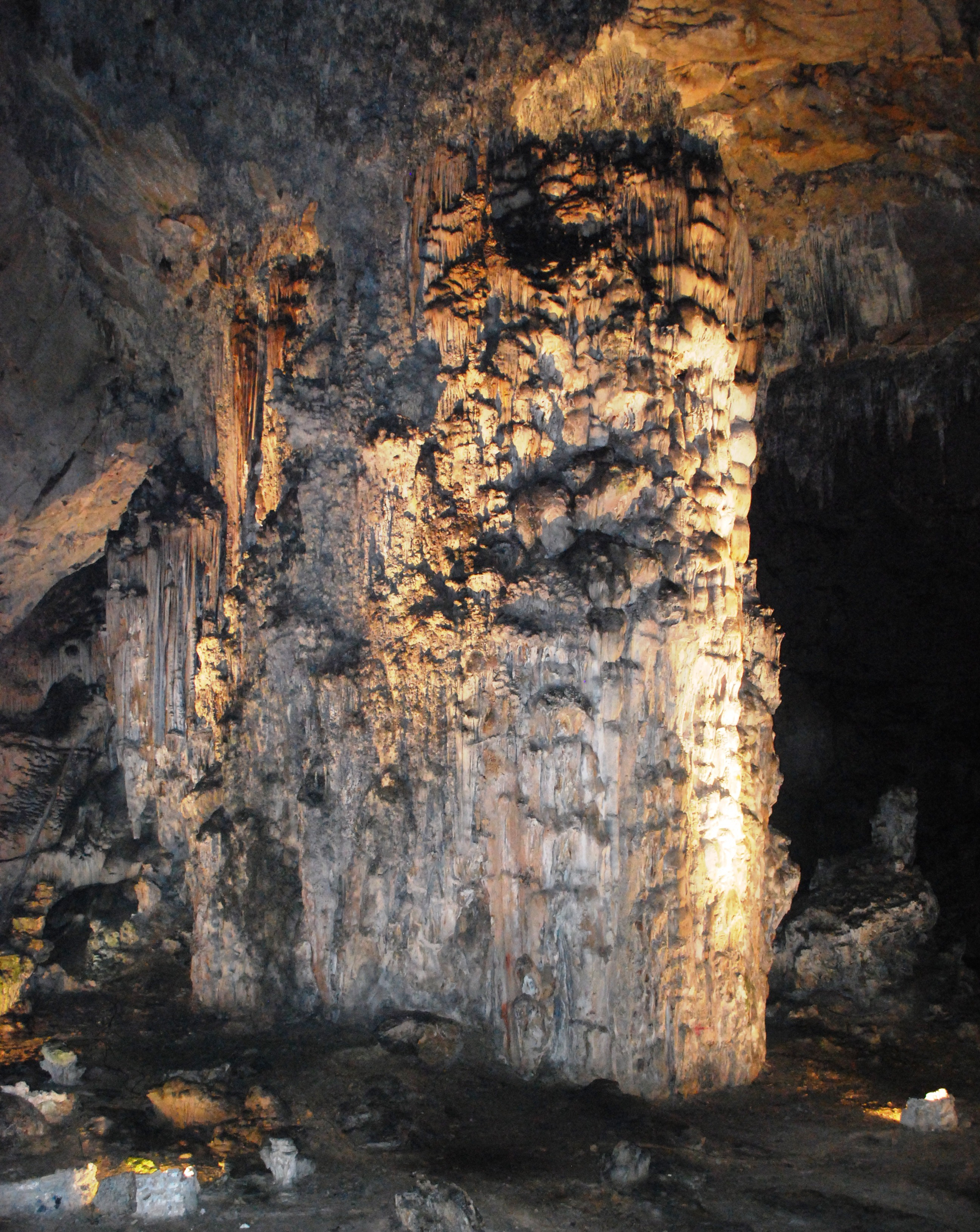 Formation at the Cacahuamilpa Caverns in Guerrero state, Mexico